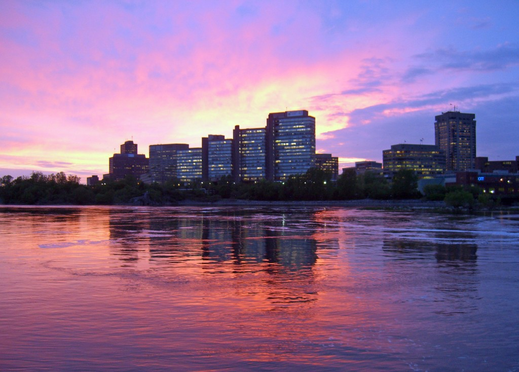 The sun sets on downtown Gatineau, as seen from Ottawa. Photo taken by Wikipedian Adam2288.